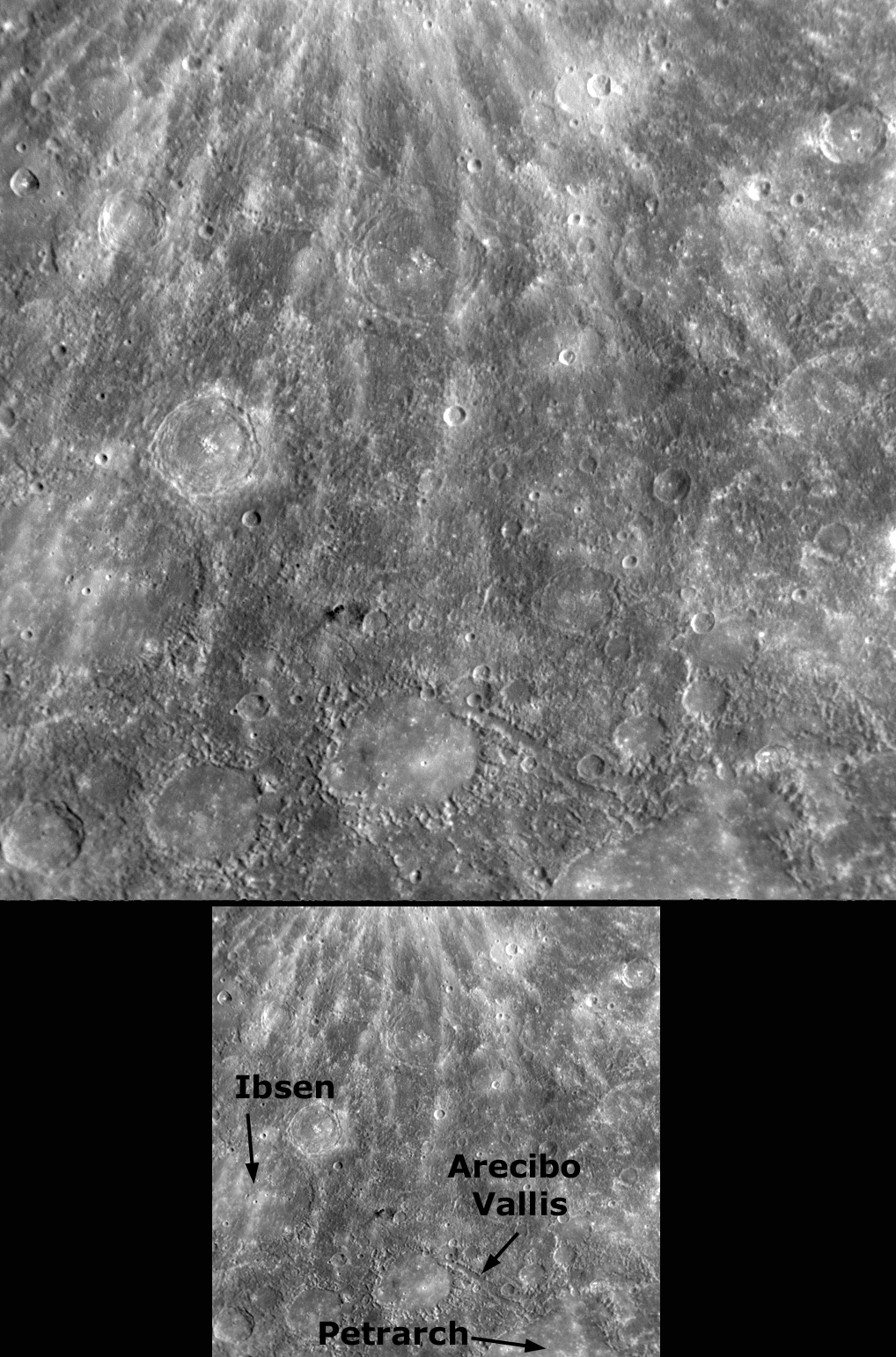 Date Acquired: October 6, 2008 Image Mission Elapsed Time (MET): 131773984 Instrument: Narrow Angle Camera (NAC) of the Mercury Dual Imaging System (MDIS) Resolution: 530 meters/pixel (0.33 miles/pixel) Scale: Ibsen crater is 159 kilometers in diameter (99 miles) Spacecraft Altitude: 21,000 kilometers (13,000 miles) Of Interest: About 69 minutes after MESSENGER’s closest approach to Mercury during the mission’s second flyby, the NAC acquired this image of a portion of Mercury’s surface also seen during the Mariner 10 mission. Toward the lower portion of the image, Arecibo Vallis is visible. Vallis is the Latin word for valley, and valles (the plural of vallis) on Mercury are named for radio telescope observatories. Arecibo Observatory is located in Puerto Rico and has been used to conduct Earth-based studies of Mercury with important results, including the detection of radar-bright materials at Mercury’s poles that may be water ice trapped in permanently shadowed craters. Arecibo also observed some bright, rayed craters that have now been better resolved by MESSENGER’s latest images. Lately, Arecibo’s unique radar capabilities have been threatened with closure due to changed funding priorities. The craters Ibsen (named for the Norwegian playwright) and Petrarch (named for the Italian poet) are also visible in this image. Bright rays from Kuiper crater extend down from the top of the image.